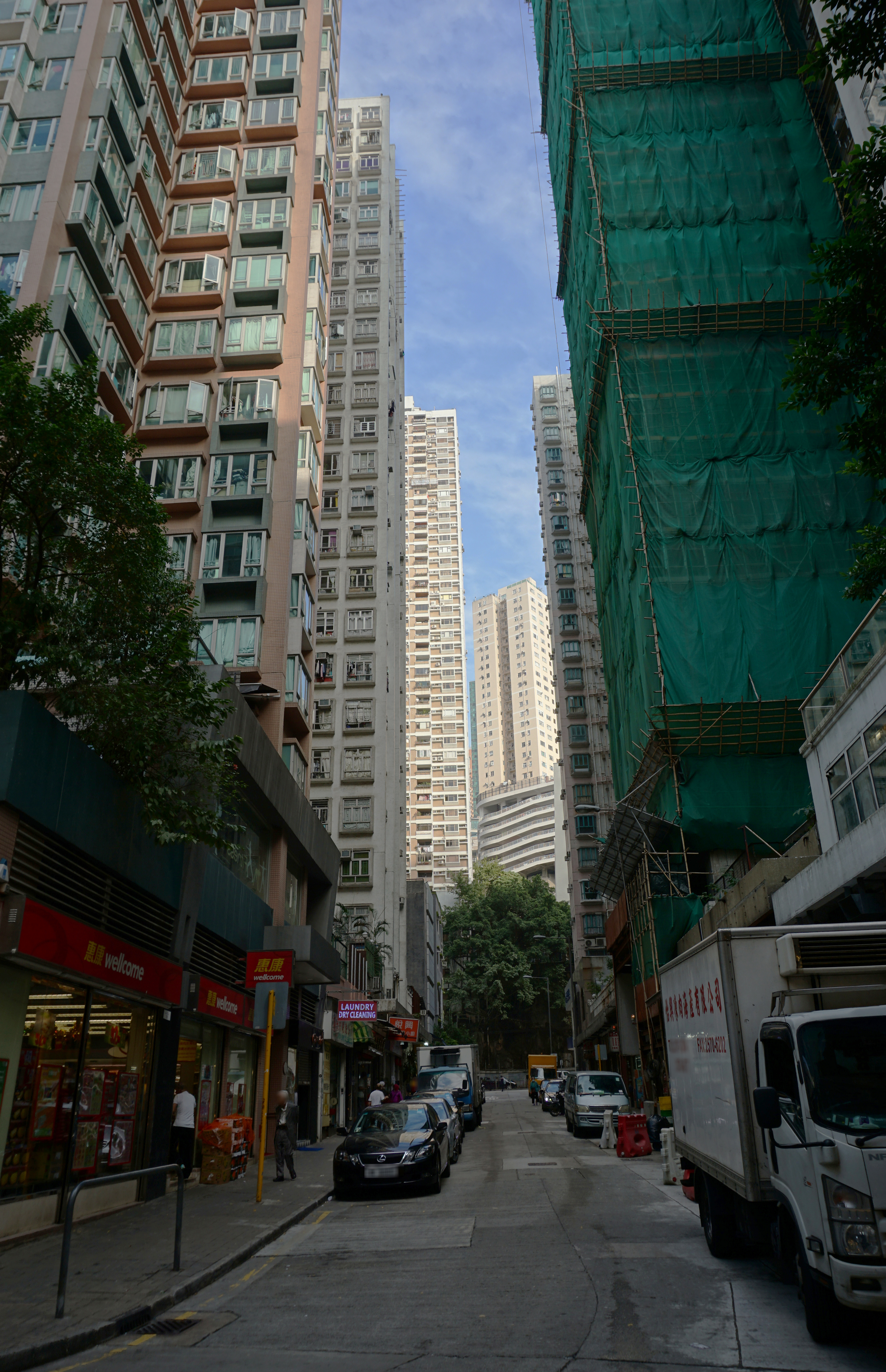 Mercury Street in Fortress Hill, Hong Kong.